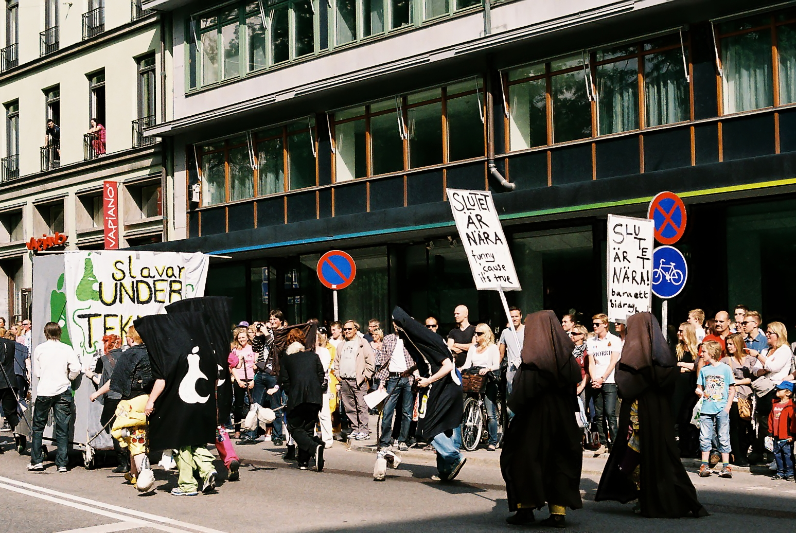 Quarnevalen, 2011.